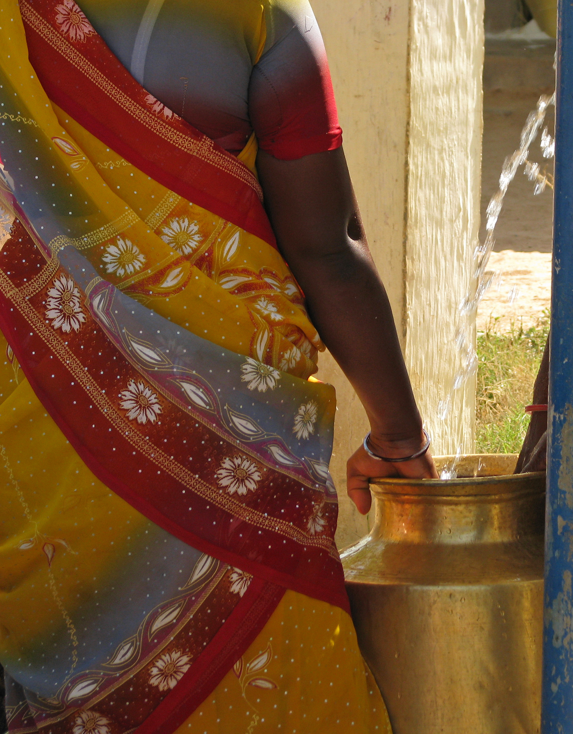 The rich everyday colours of a sari-clad rural women fetching water from the village tank. Water supply is a major problem throughout India and many rural areas lack clean water and supply to the home forcing women to fetch and carry water daily. Most villages lack the resources to invest and ensure a clean supply to each home.